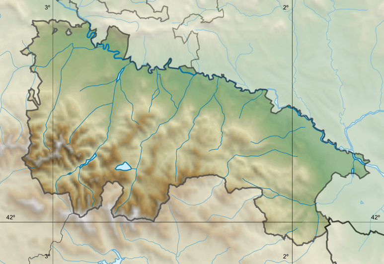 Location map relief of La Rioja Equirectangular projection, N/S stretching 130 %. Geographic limits of the map: N: 42.708057° N S: 41.857696° N W: 3.223917° W E: 1.616594° W